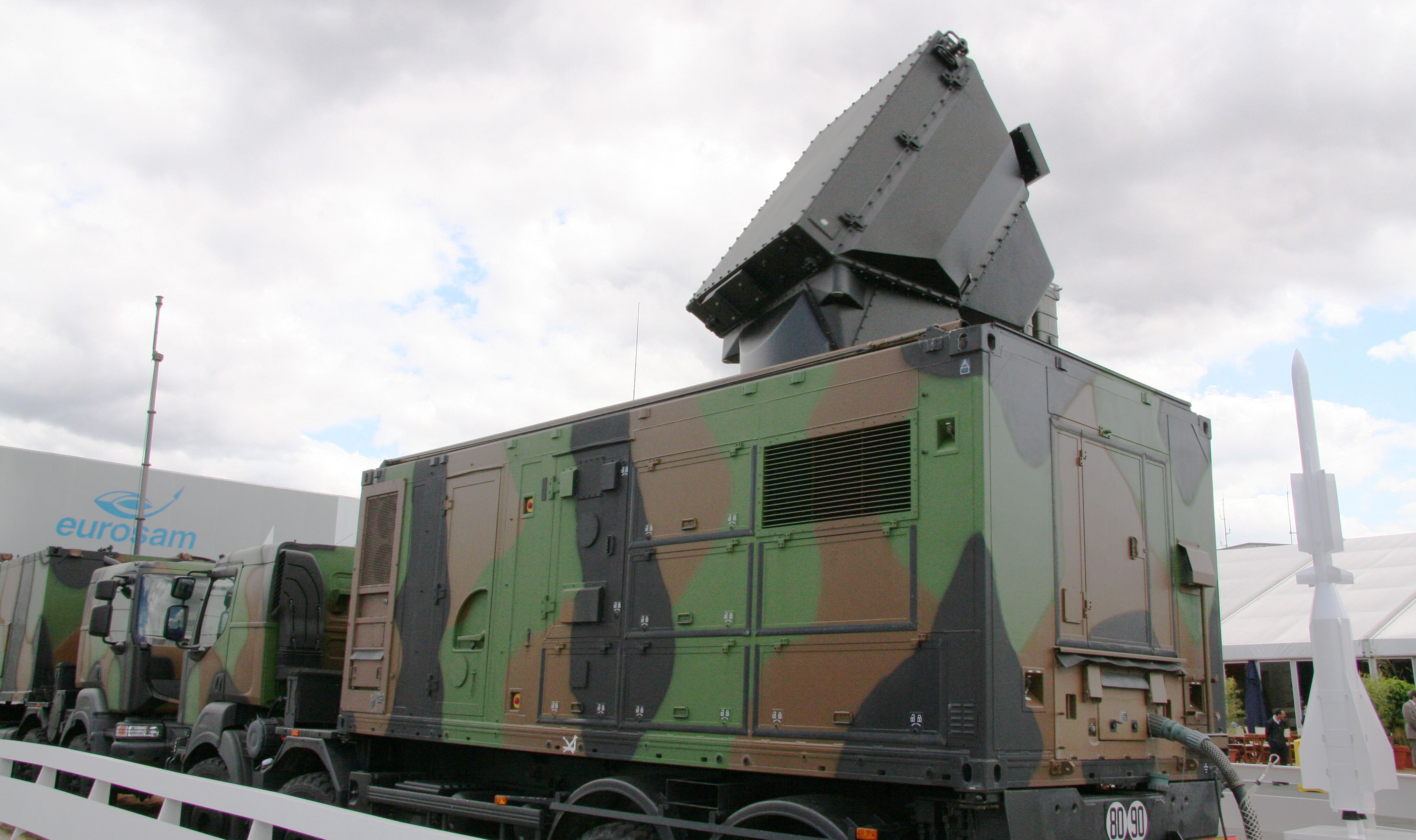 MBDA Aster 30 - Paris Air Show 2009